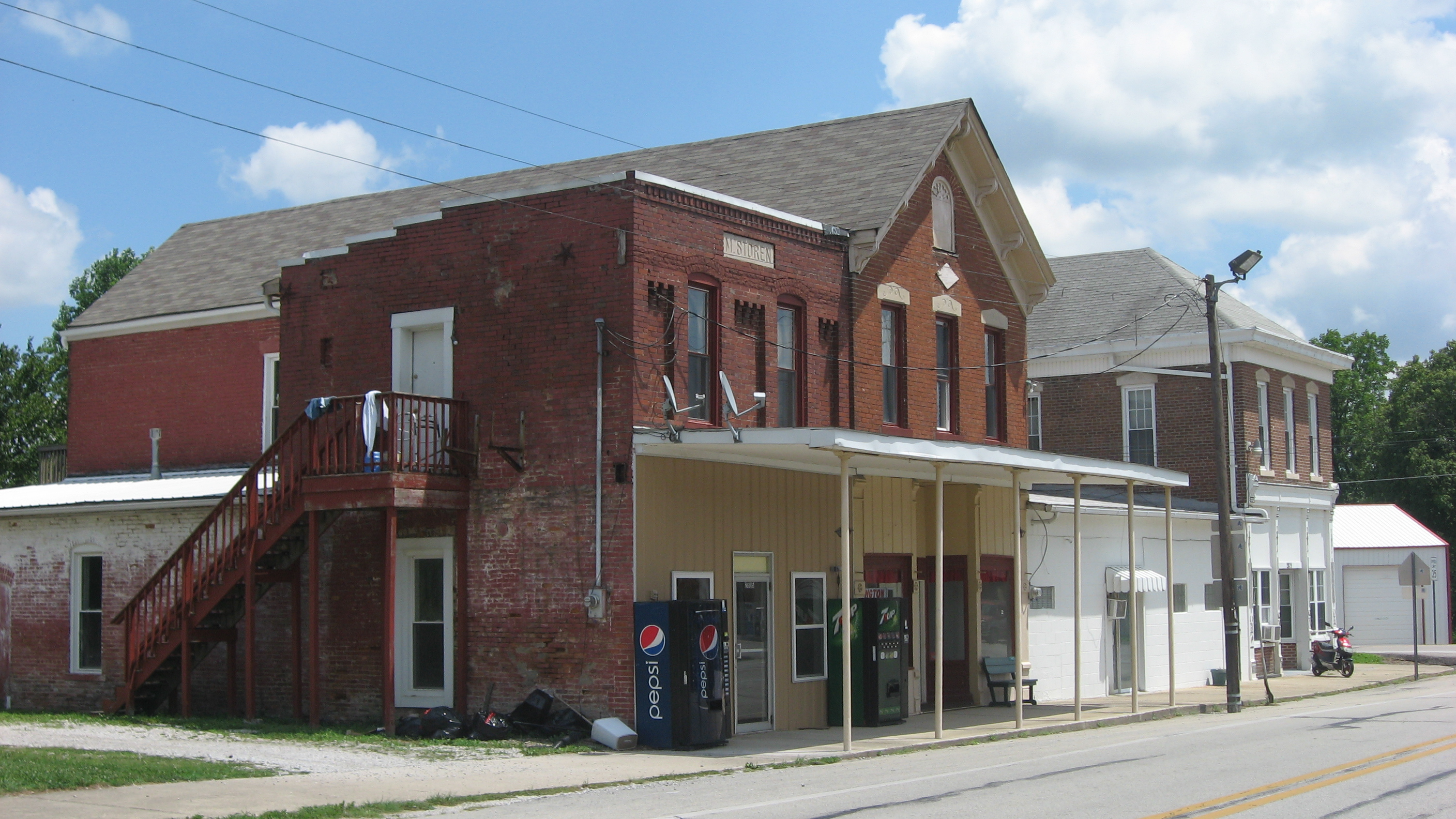 Buildings on the eastern side of the 2800 block of Cherry Street (State Road 203) in central Lexington, Indiana, United States. From left to right, they are: M. Storen Building, built 1880 Unnamed commercial building, built 1880 Unnamed commercial building, recent construction P.F. Smith Building, built 1890 This block is part of the locally-designated Lexington Historic District.